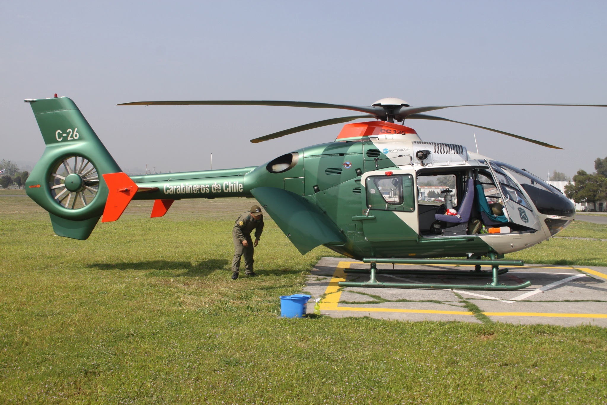 At Tobalaba